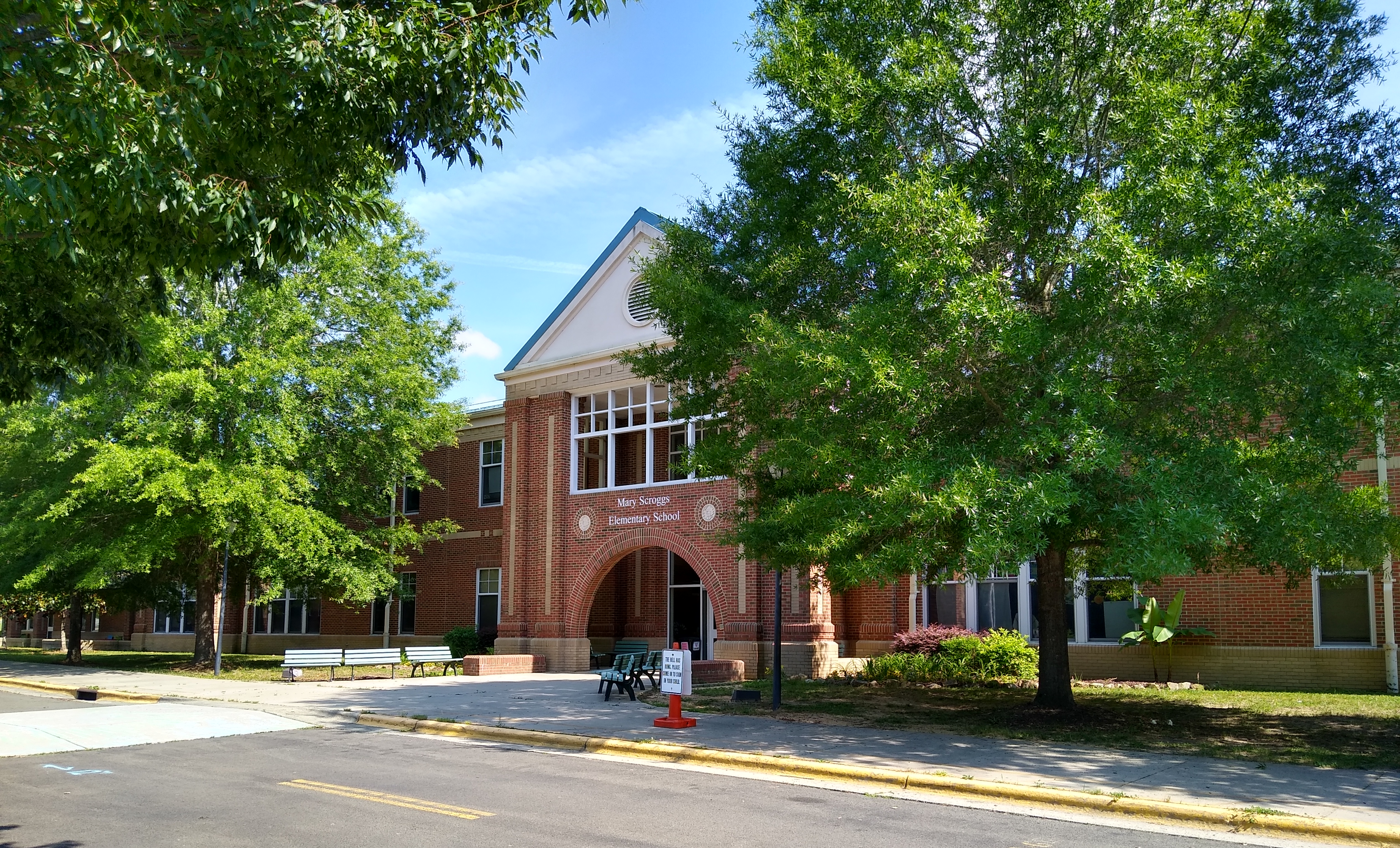 Mary Scroggs Elementary School in Chapel Hill, North Carolina.